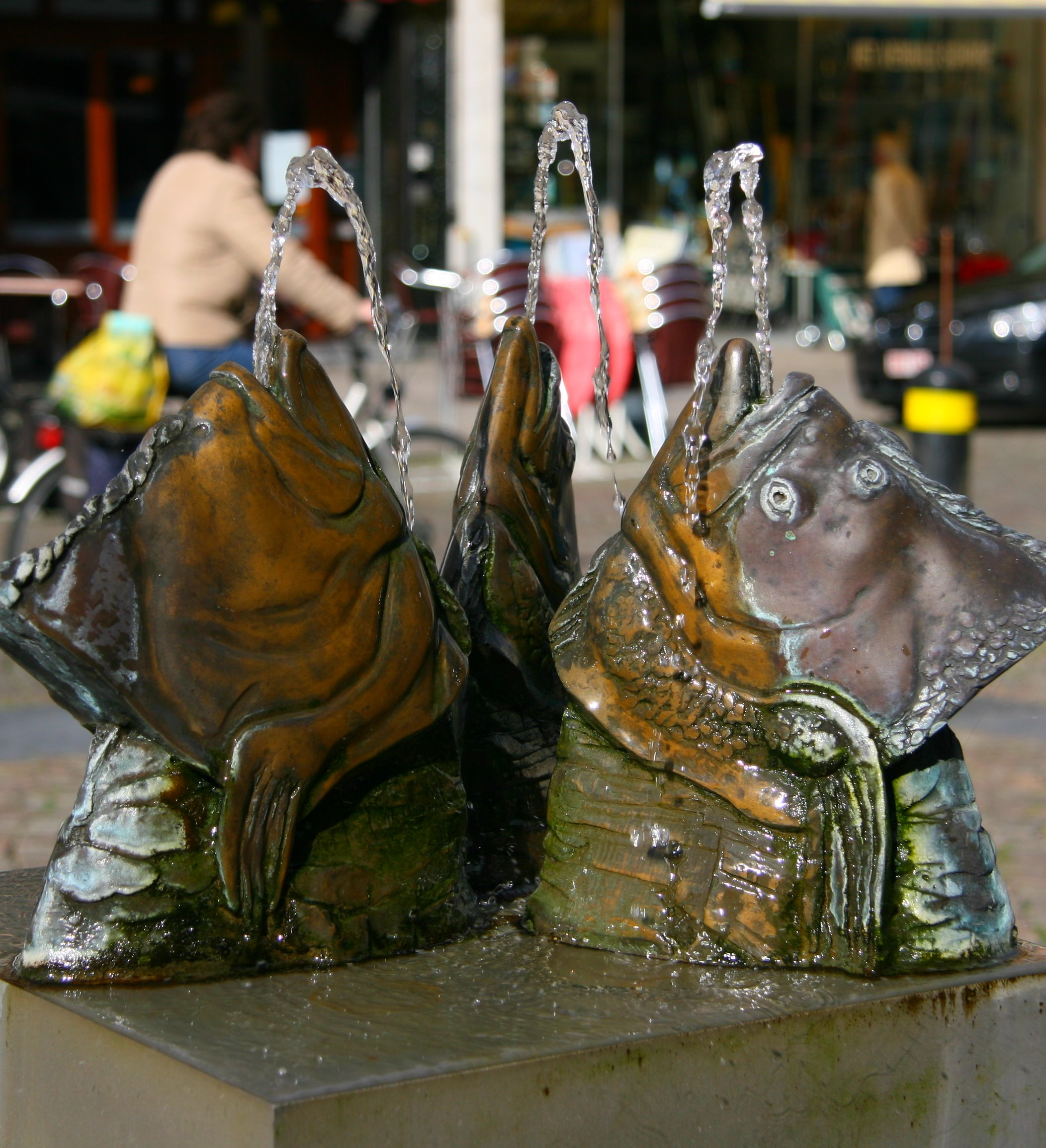 A fish-like fountain on Ijzereleen, in the flemish city of Mechelen. Visfontein op den IJzerenleen